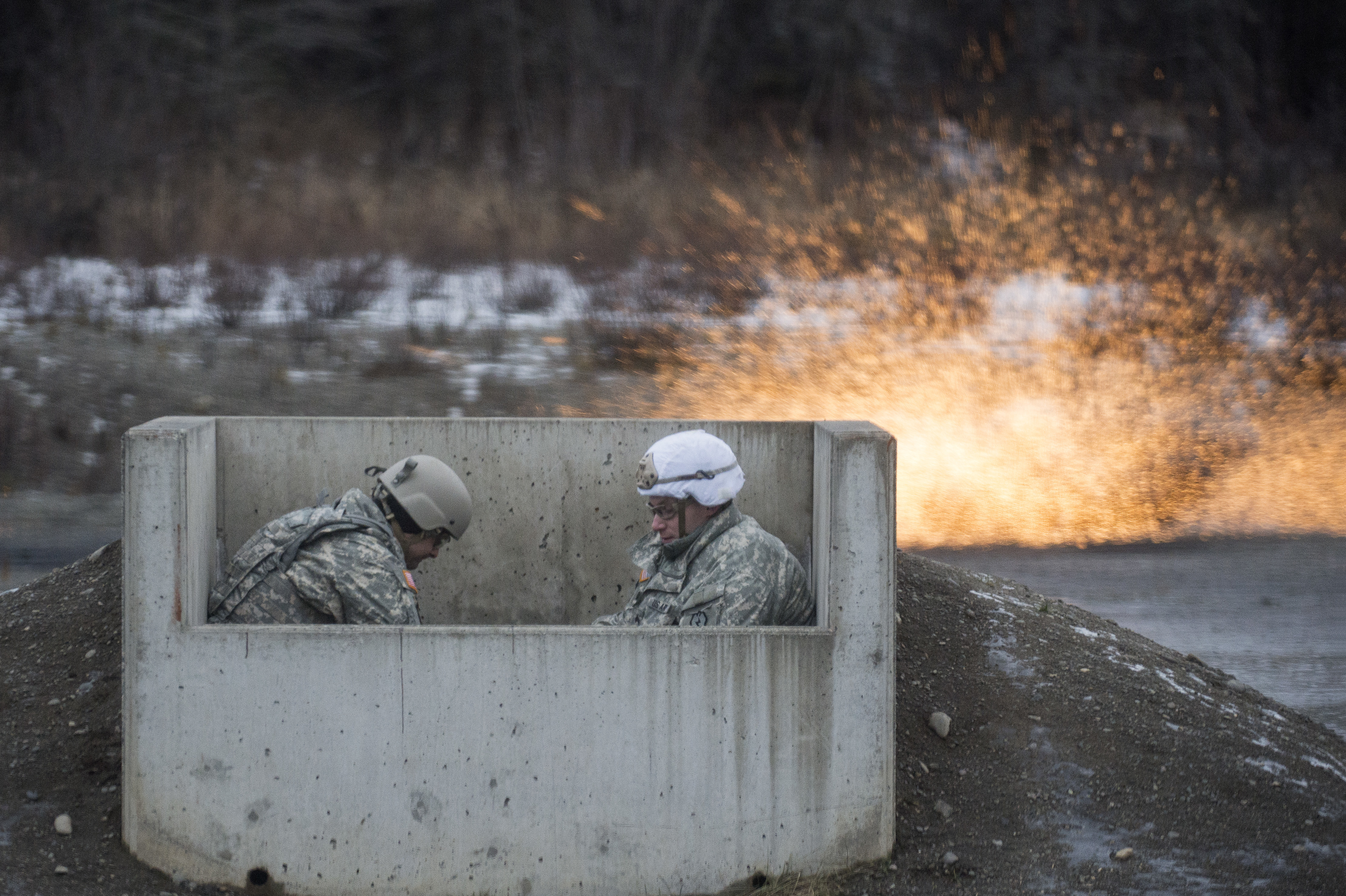 U.S. Army paratroopers Staff Sgt. Mario Avilesmancia, left, and Sgt. Kevin Burns, assigned to Able and Weapons Company, respectively, 3rd Battalion, 509th Parachute Infantry Regiment, 4th Brigade Combat Team (Airborne), 25th Infantry Division, U.S. Army Alaska, take cover while conducting M67 fragmentation grenade live-fire training at Joint Base Elmendorf-Richardson, Alaska, Dec. 12, 2017. During the familiarization training the Soldiers threw live hand grenades to hone their proficiency. The fragmentation hand grenade has a lethal radius of 5 meters and can produce casualties up to 15 meters, dispersing shrapnel as far as 230 meters. (U.S. Air Force photo by Alejandro Peña)